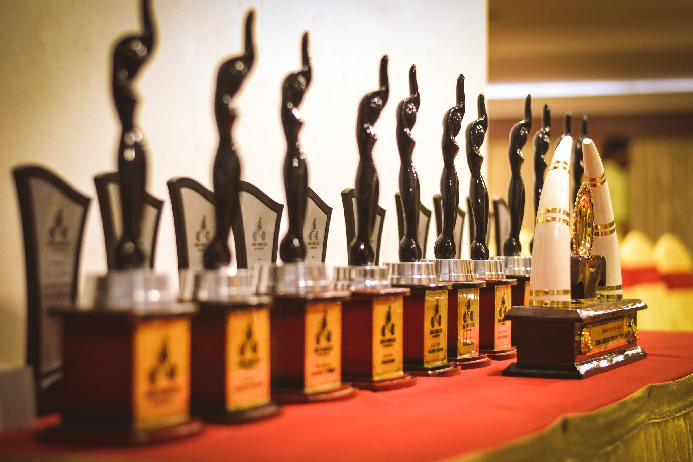 This photo was taken at CPC Cine Awards 2016 awards ceremony held in Kochi